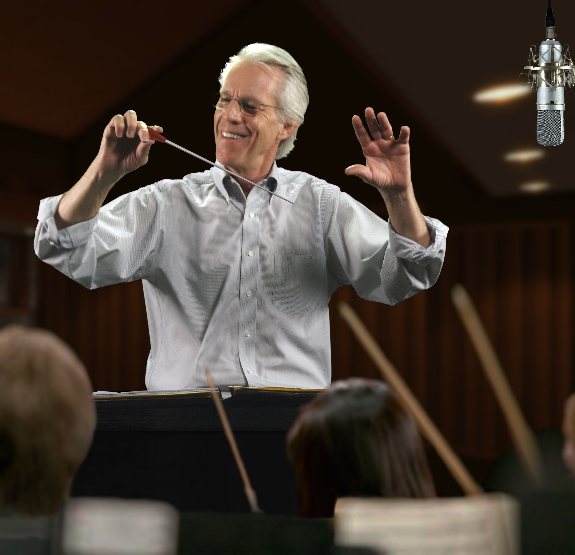 Producer/arranger Jim Ed Norman.